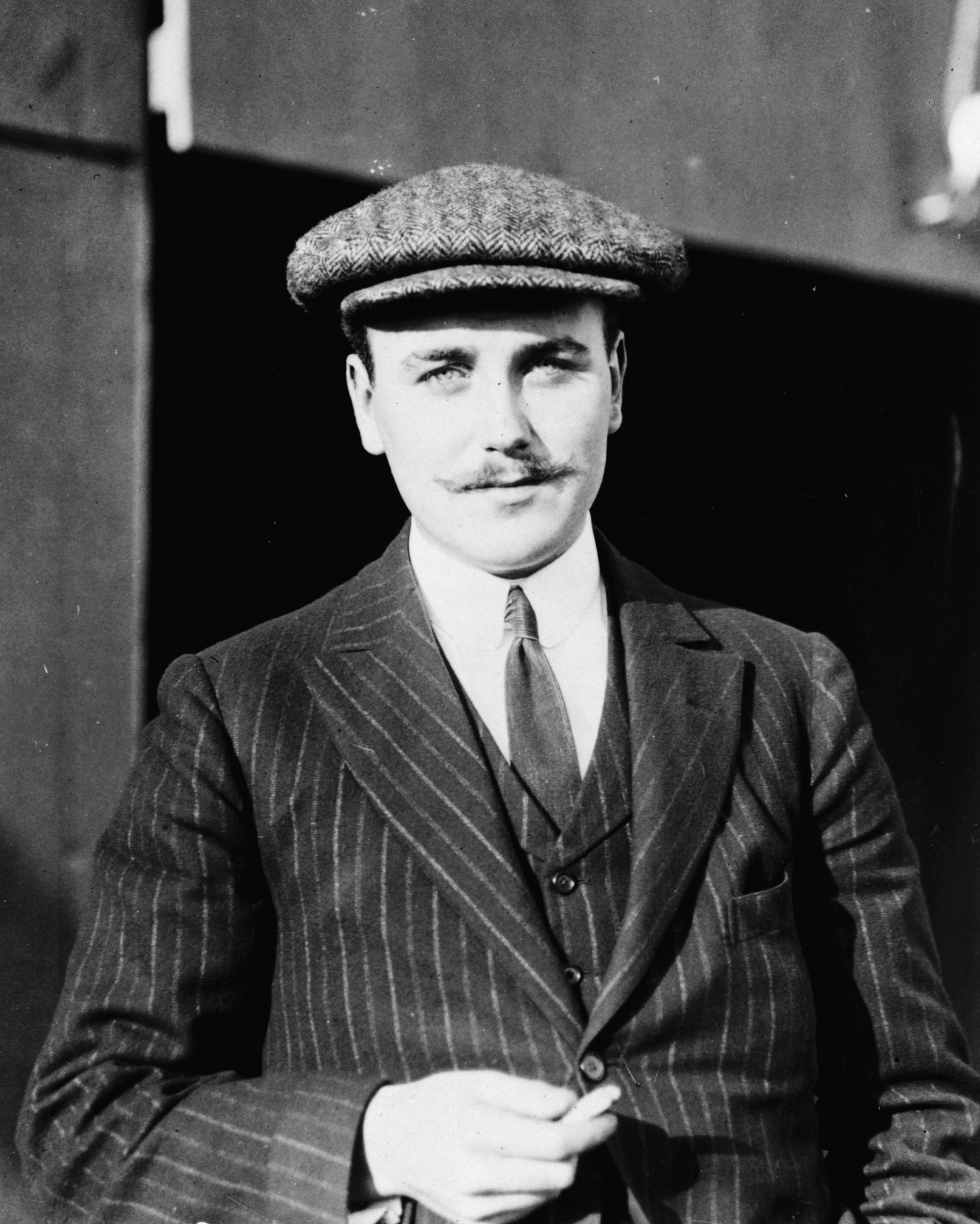 Title: Anthony J. Drexel, Jr., millionaire aviator, half-length portrait, standing, facing forward, wearing cap Abstract/medium: 1 photographic print.